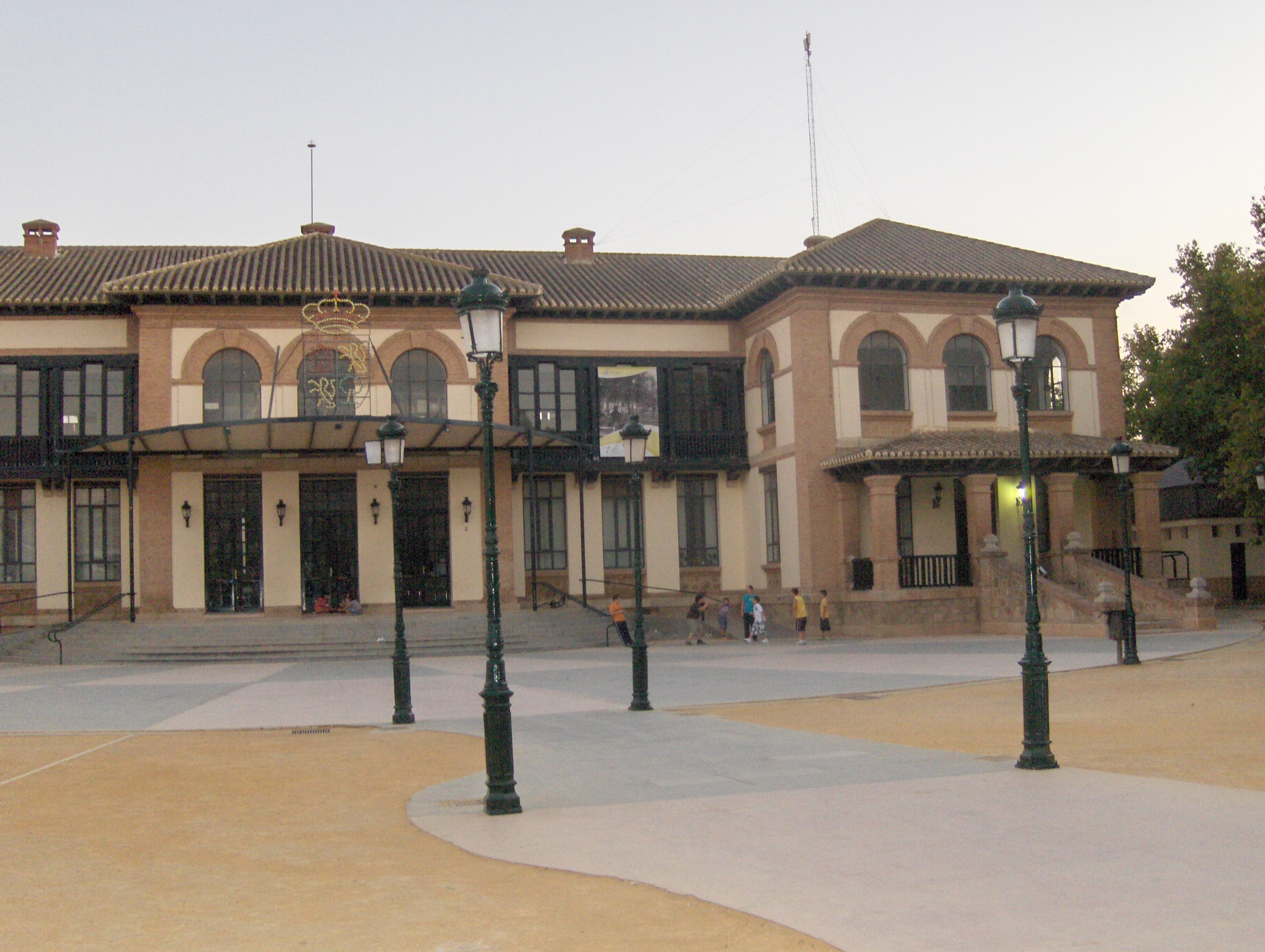 Campillos Town Hall, Málaga, Spain